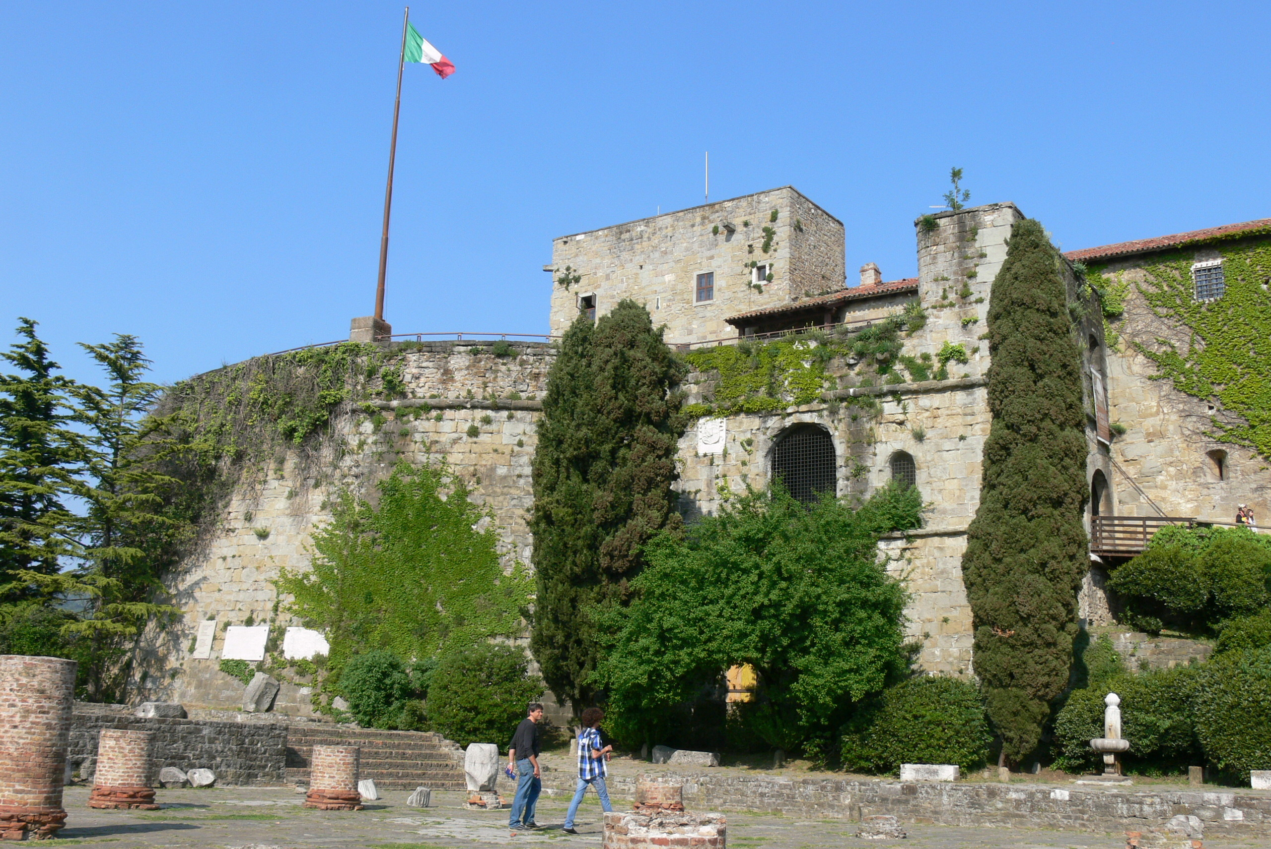 Trieste ( Italy ). Castello di San Giusto ( Triest castle ).